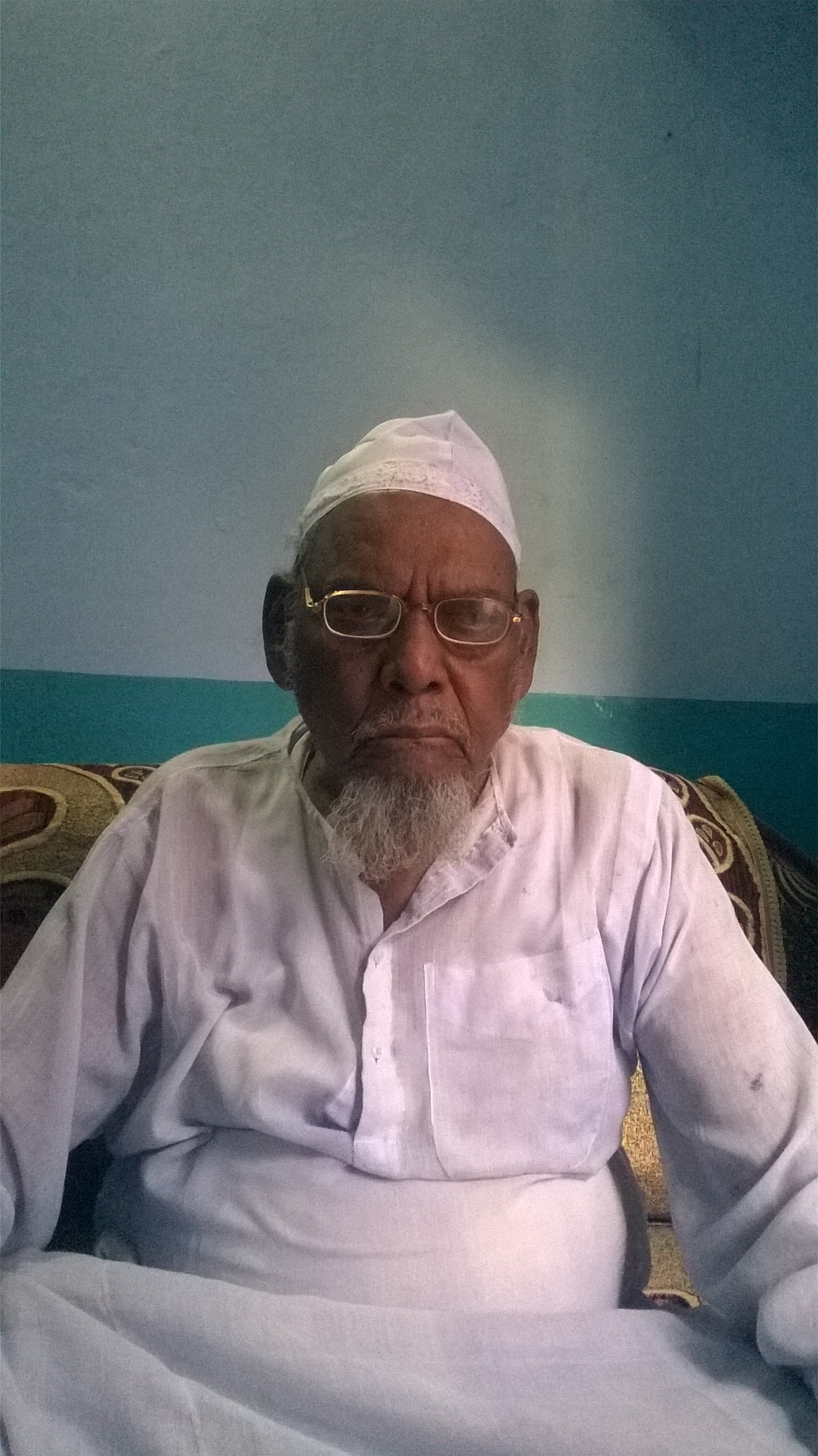 Kamil Bahraichi a urdu poet of humour from Bahraich